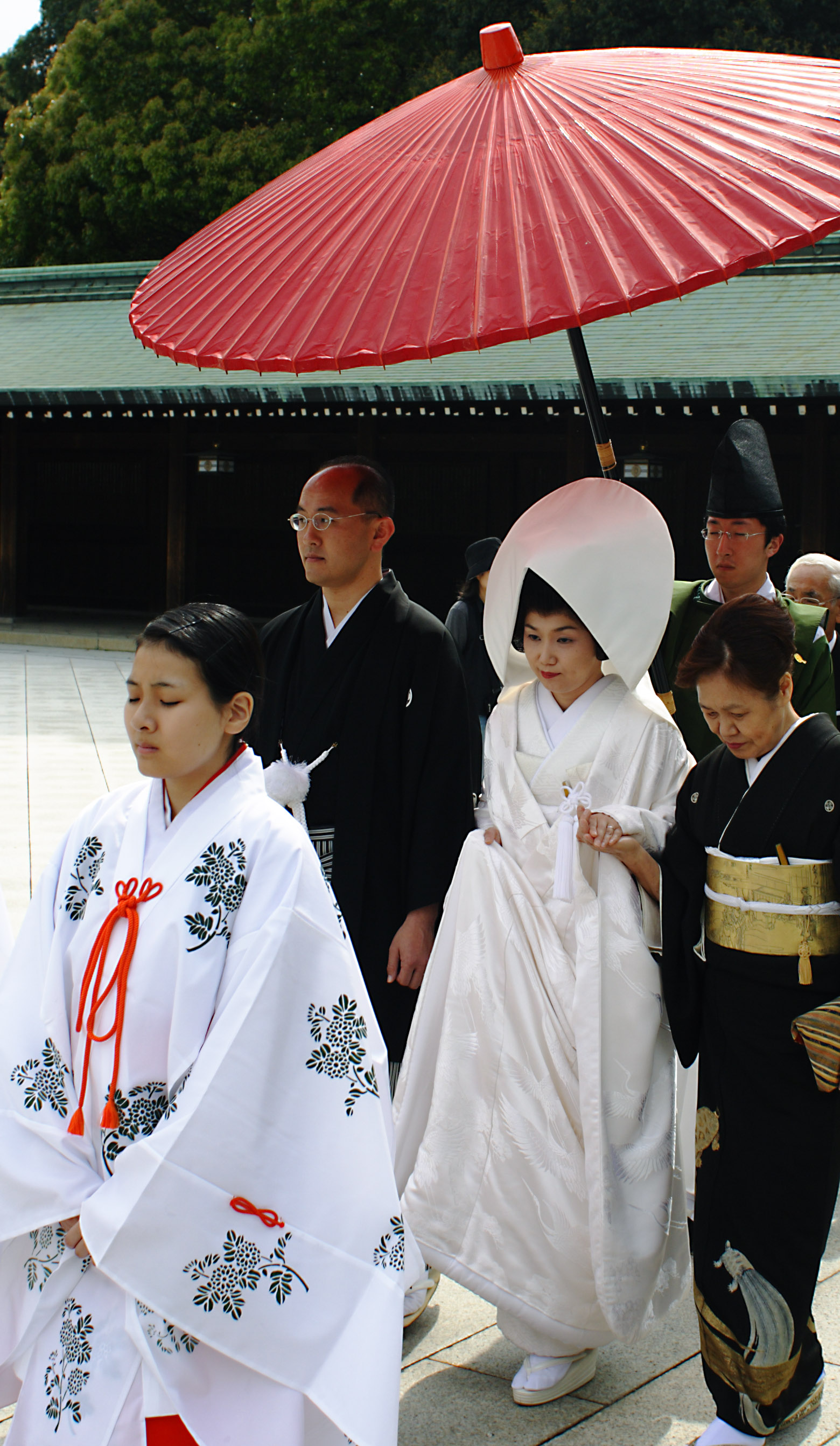 Hey I managed to get a picture of her without any of the other 100 people taking her picture! I like the expression on her face.